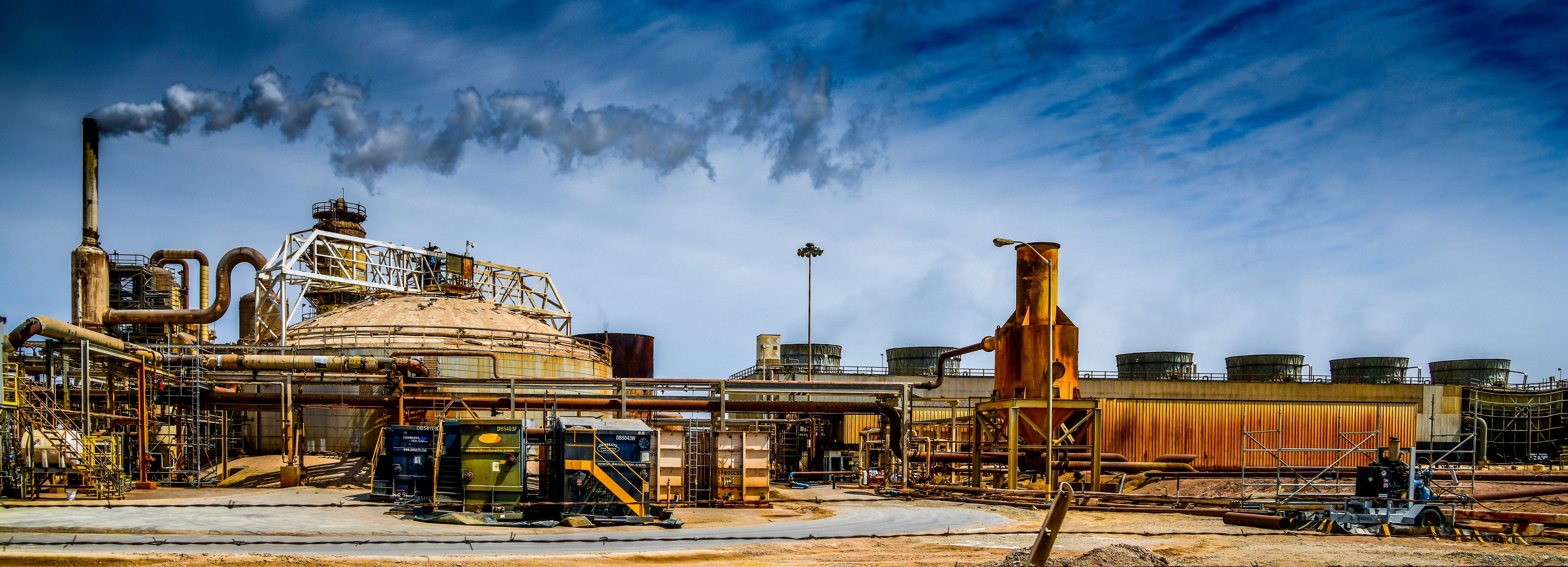 The 38 MW, Leathers Geothermal Plant, came on line in 1990 It is located at 342 W Sinclair Road, Calipatria, CA, near the Sonny Bono Salton Sea National Widelife Refuge. The Salton Sea area has an unusally high level of geothermal activity as evidenced by fields of volcano-like mud pots. This plant is one of 10 geothermal generating plants owned by Calenergy in the Imperial Valley of Calfornia.